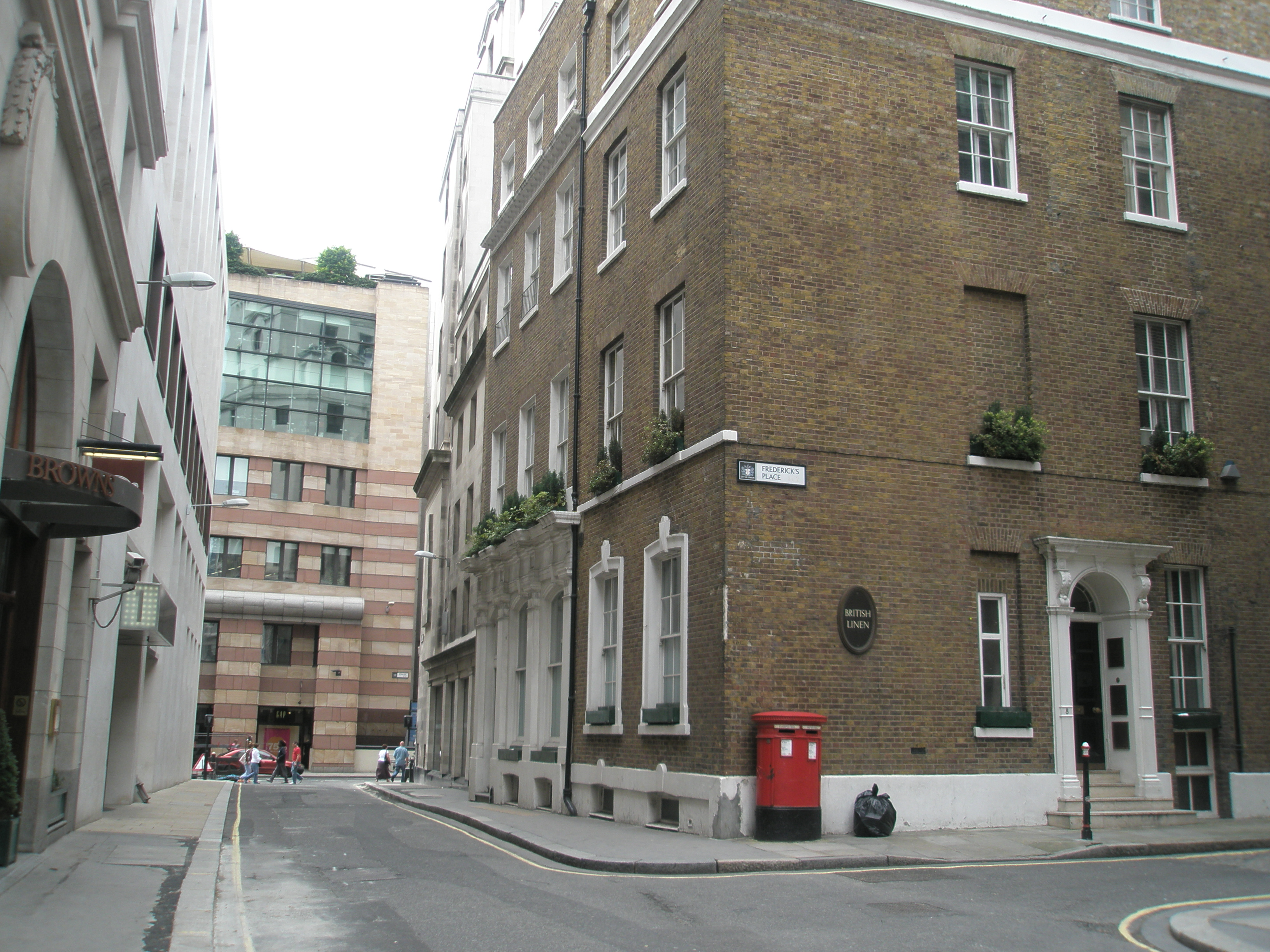 Old Jewry